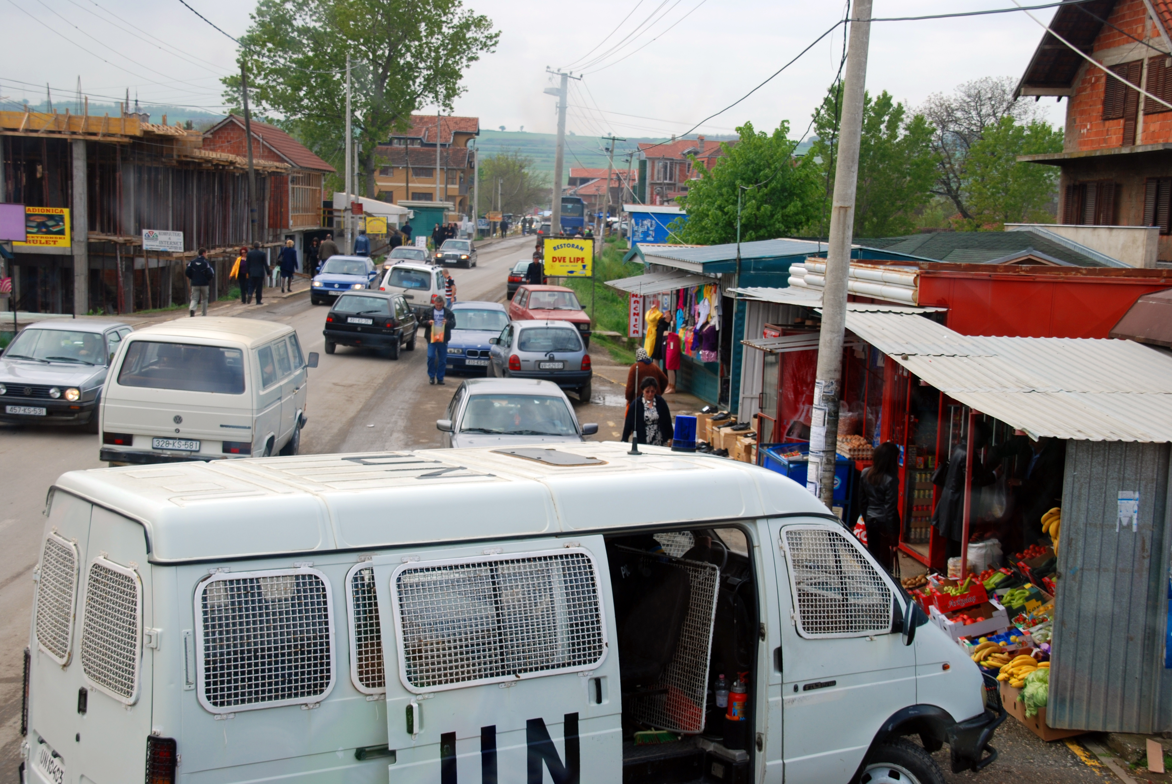 photo: Arian Selmani